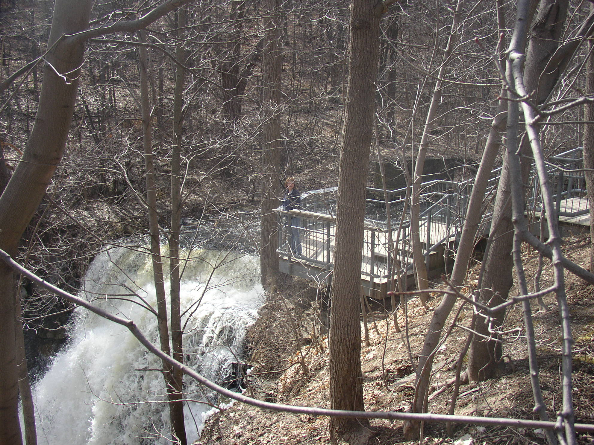 Boundary Falls, Waterdown